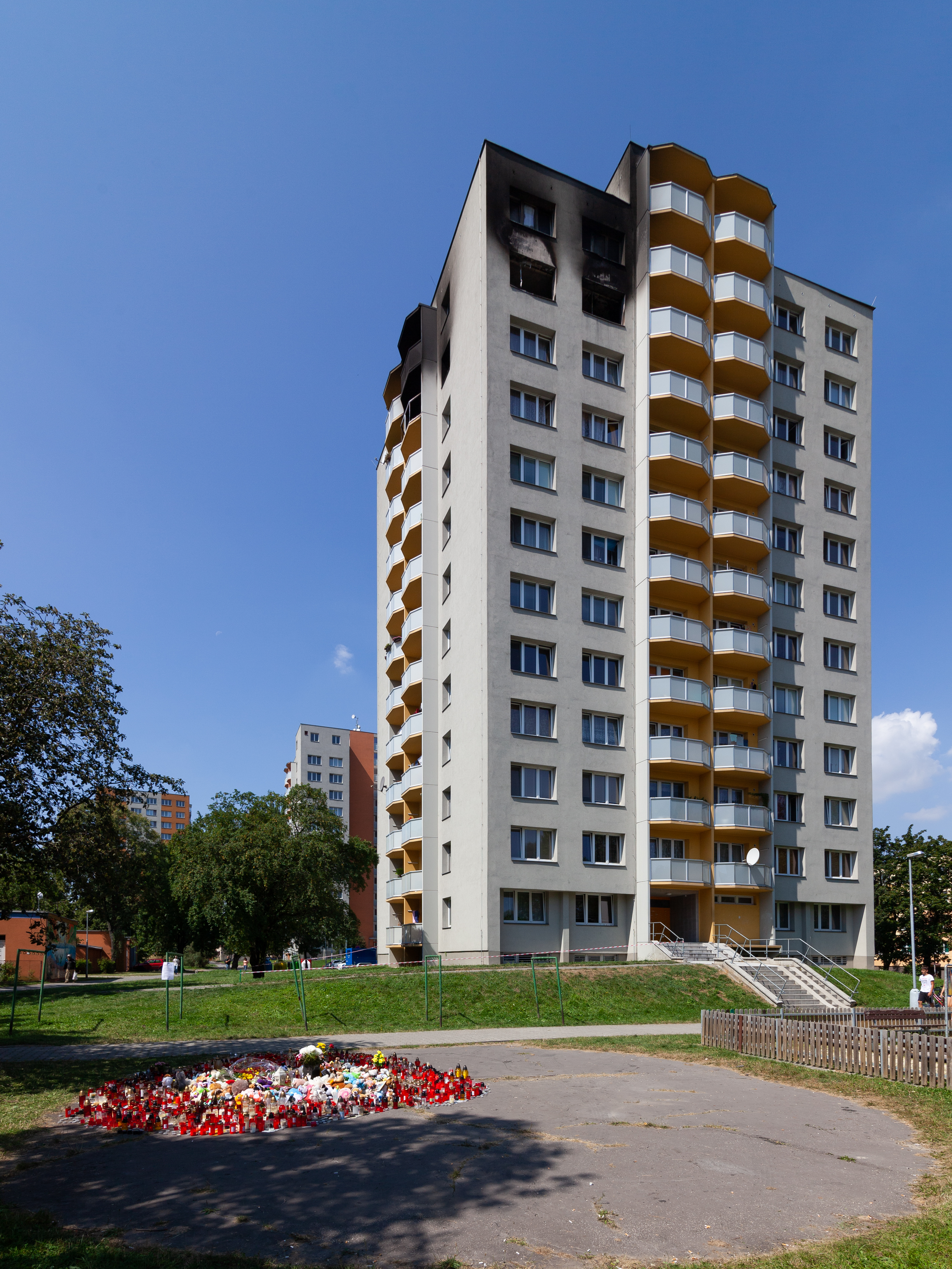 East overview of the damaged building of 2020 Bohumín arson attack with the makeshift shrine, Bohumín, Karviná District, Moravian-Silesian Region, Czechia